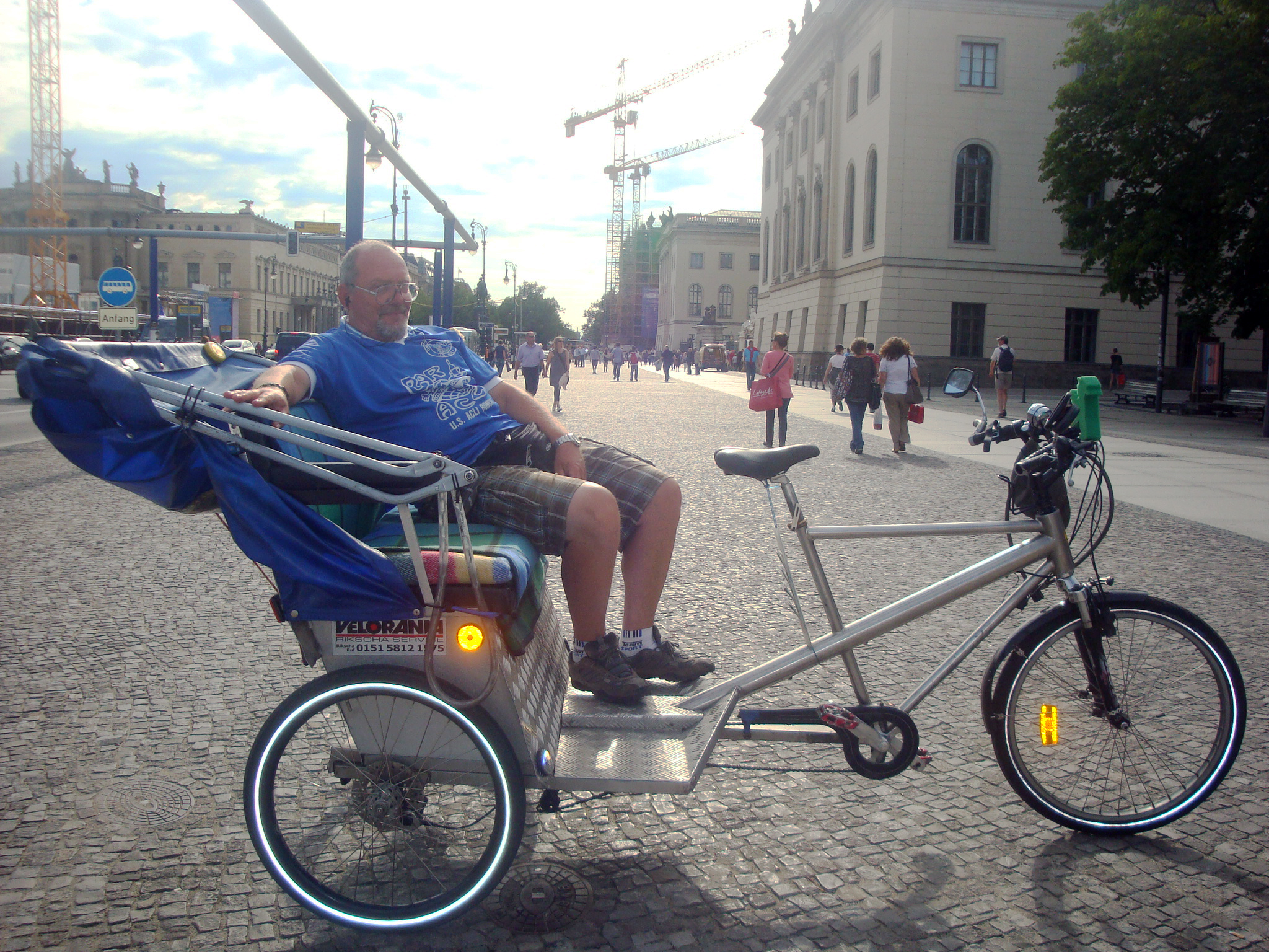 Rickshaw in Berlin city, Germany. Photographed during the "Mozilla Reps Camp 2012", dated 9th July, 2012, Berlin, Germany